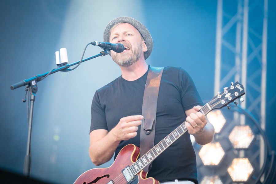 Lars Fredrik Beckstrøm with deLillos at the main stage at Stavernfestivalen. The concert was part of Stavernfestivalen and took place on 13. July 2018 in Stavern. Lineup:Lars Lillo-Stenberg (guitar and vocal)Lars Fredrik Beckstrøm (bass guitar)Øystein Paasche (drums)Lars Lundevall (guitar)